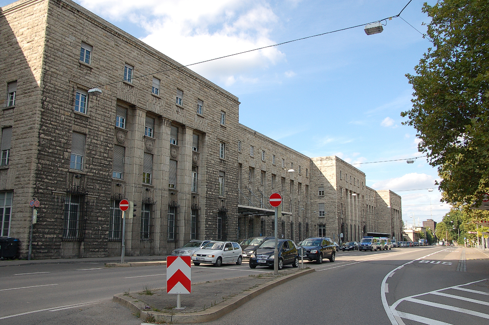 Demonstrations against Stuttgart 21 2010